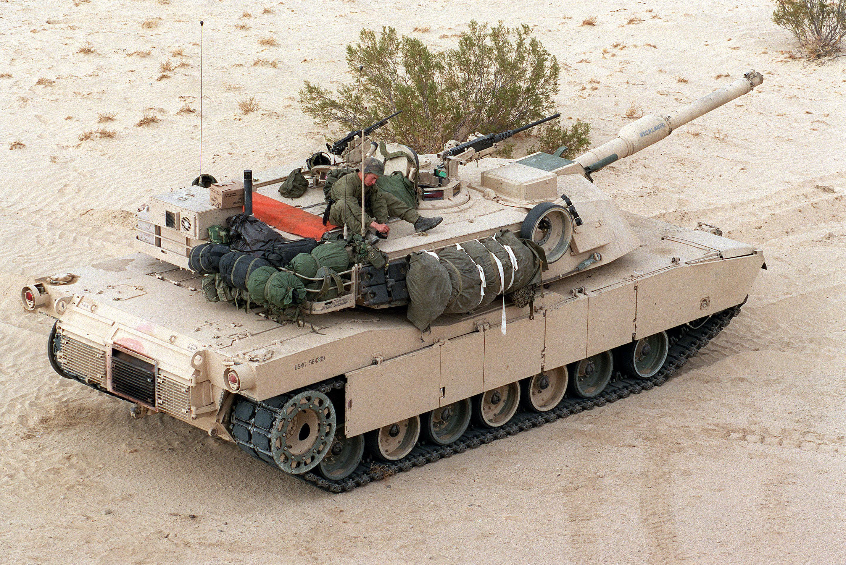 A Marine takes a break atop his tank during a Combined Arms Exercise at the Marine Corps Air Ground Combat Center, Twentynine Palms, Calif., on Feb. 1, 2000. Marines from the 2nd Marine Division's 2nd Tank Battalion took part in the exercise which is designed to involve all elements of the Marine Air Ground Task Force in a live fire, desert training environment.